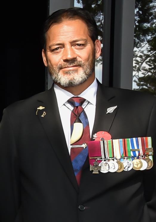 Willie Apiata, at the opening of Te Rau Aroha at Waitangi, on 5 February 2020.